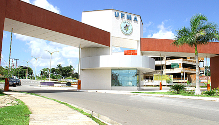 UFMA campus